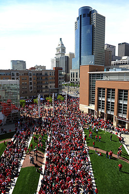 The Banks on Opening Day for The Cincinnati Reds, April 2012. Photographer is Mark Bowen and he wants the credit to go to